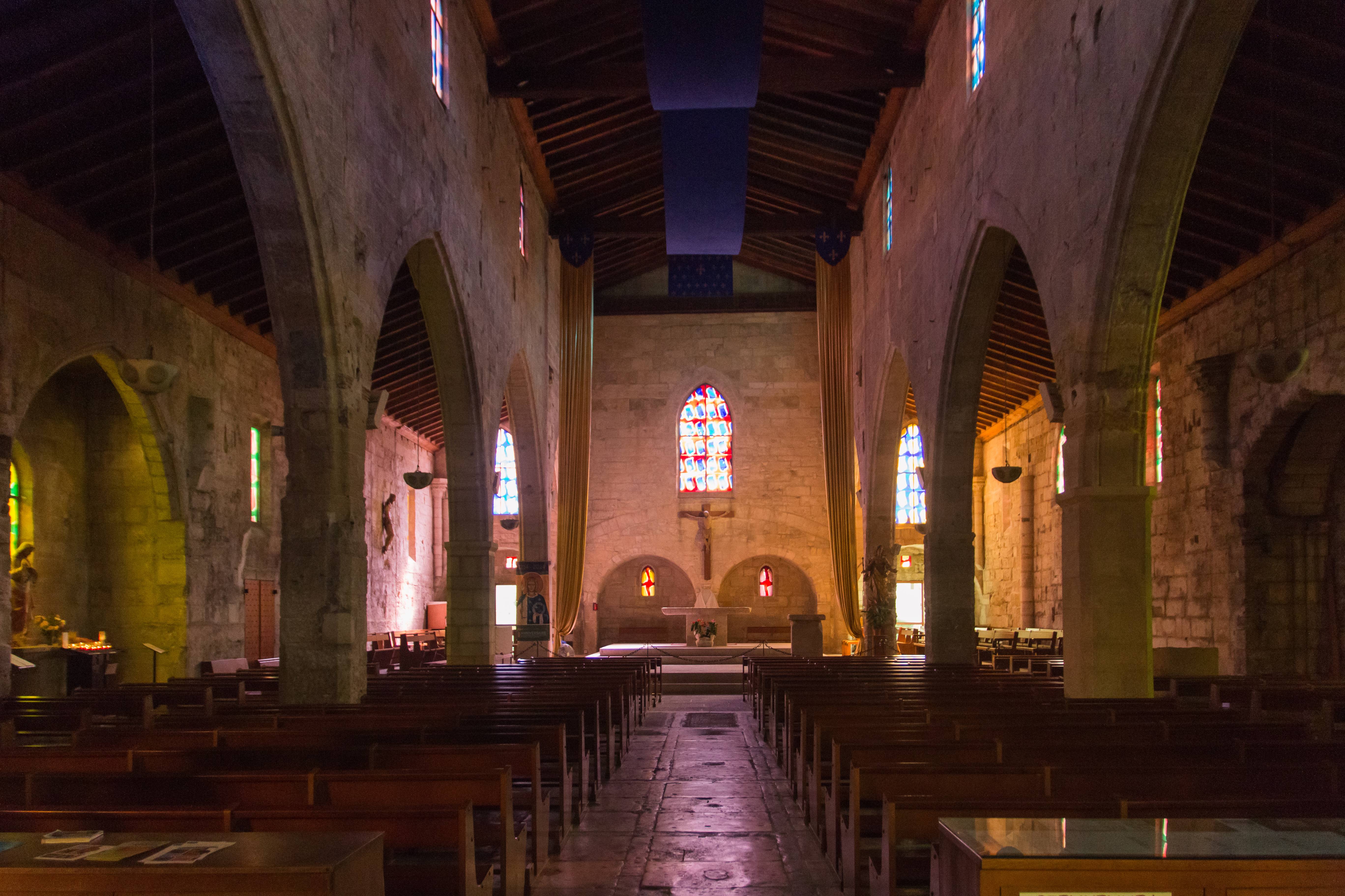 Nave of the church of Our Lady of Sablons (12 and 13 centuries).